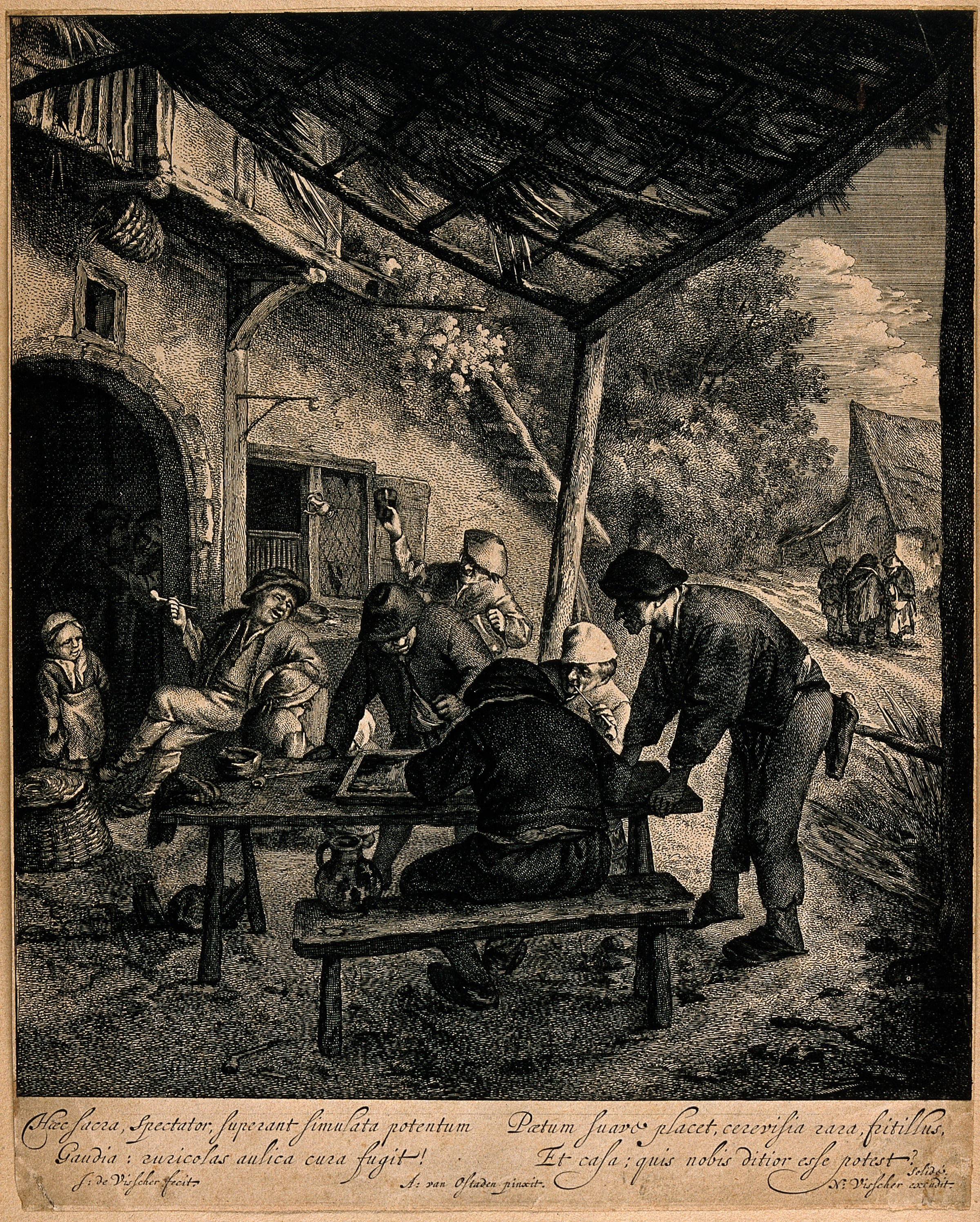 Men playing backgammon outside in an arbor, nearby others smoke and drink. Etching by J. de Visscher after A. van Ostade. Iconographic Collections Keywords: Adriaen van Ostade; Jan de Visscher